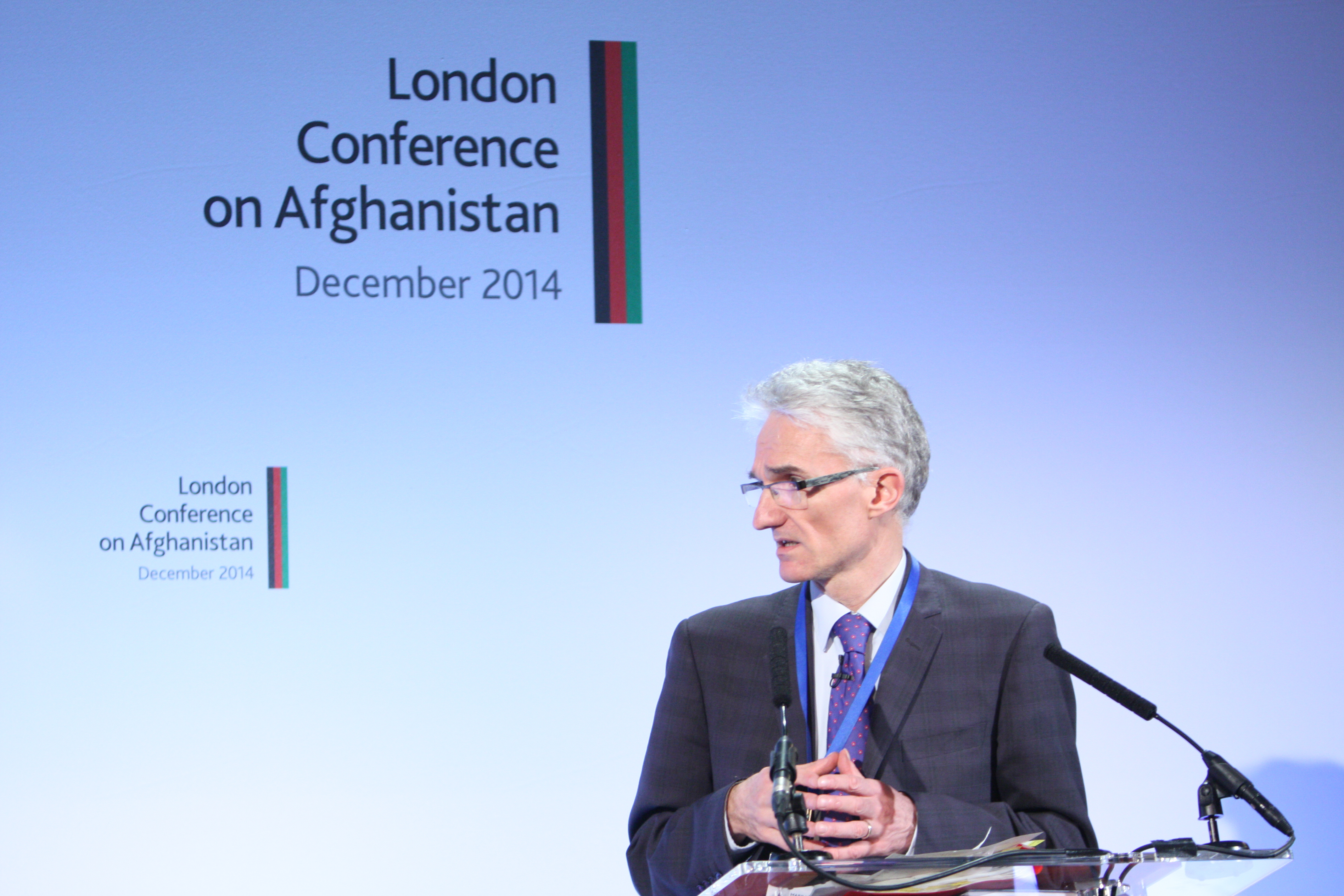 Permanent Secretary for DFID, Mark Lowcock, welcomes delegates to the London Conference on Afghanistan. The London Conference on Afghanistan takes place on 4 December 2014, co-hosted by the governments of the UK and Afghanistan. The Conference brings together the Afghan government and international community in support of a secure and peaceful future for Afghanistan. Find out more at: Picture: Patrick Tsui/FCO Free-to-use photo This image is posted under a Creative Commons - Attribution Licence, in accordance with the Open Government Licence. You are free to embed, download or otherwise re-use it, as long as you credit the source as ‘Patrick Tsui/FCO’.